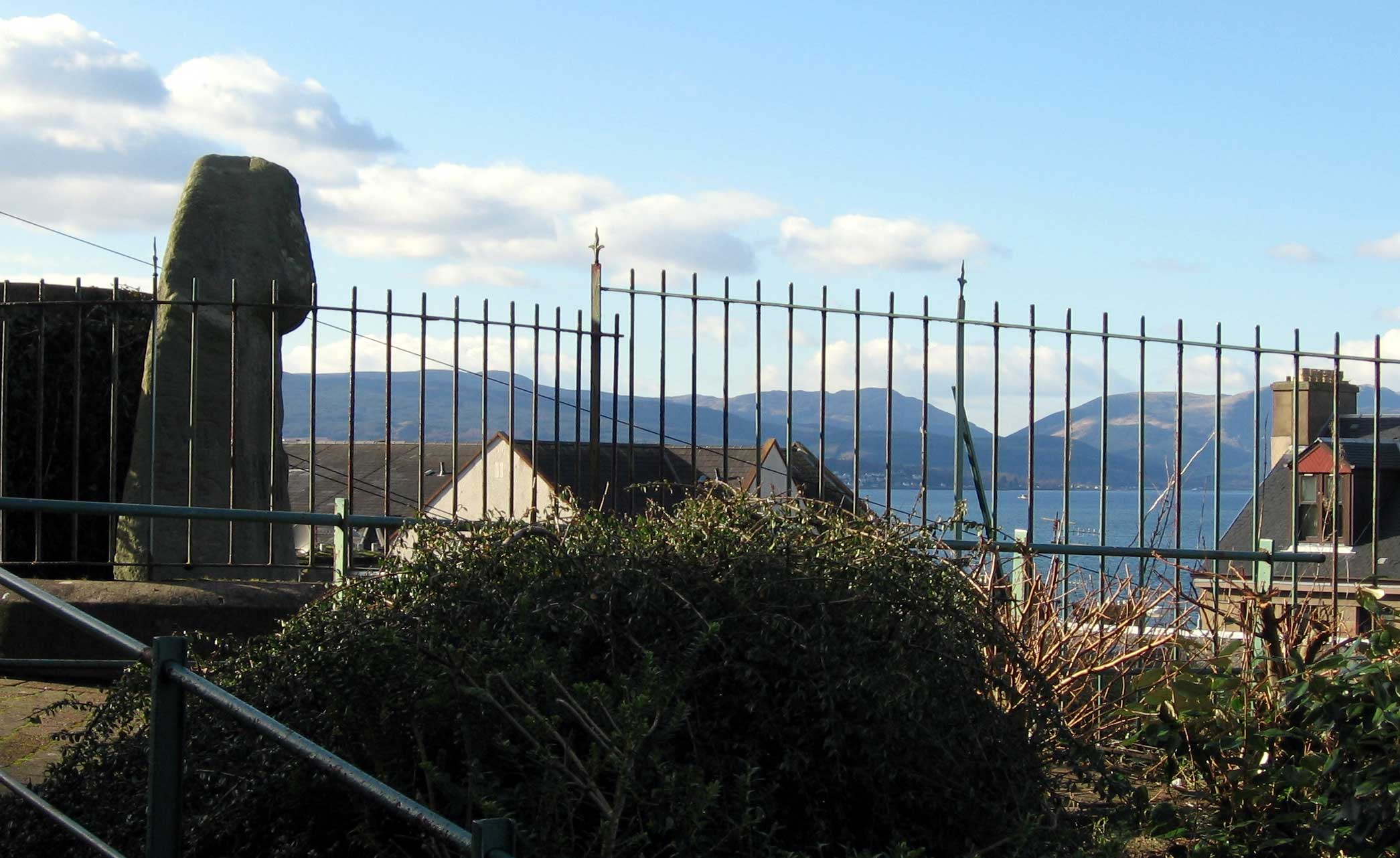 The megalithic Kempock Stone in Gourock, popularly known as "Granny Kempock", stands on a cliff behind the main shopping street, looking out over the Firth of Clyde to the Holy Loch. A flight of steps winds up from the street past the stone to Castle Mansions and St John's church, which form a landmark dominating Gourock. photograph taken on 20 February 2006 by User:Dave souza. Any re-use to contain this licence notice and to attribute the work to User:Dave souza at Wikipedia.